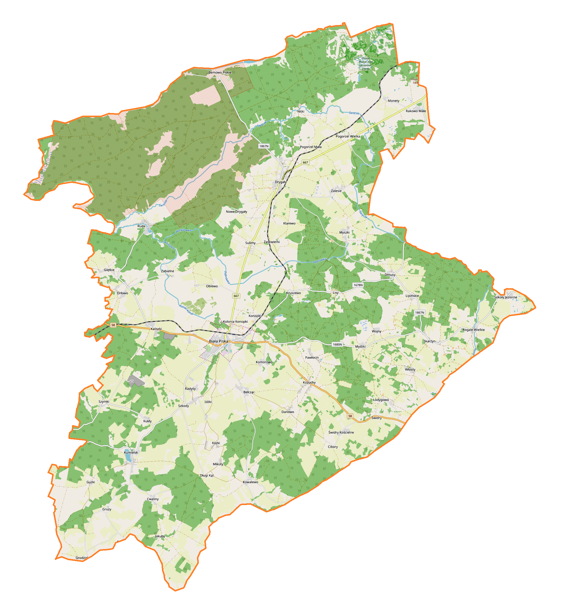 Location map